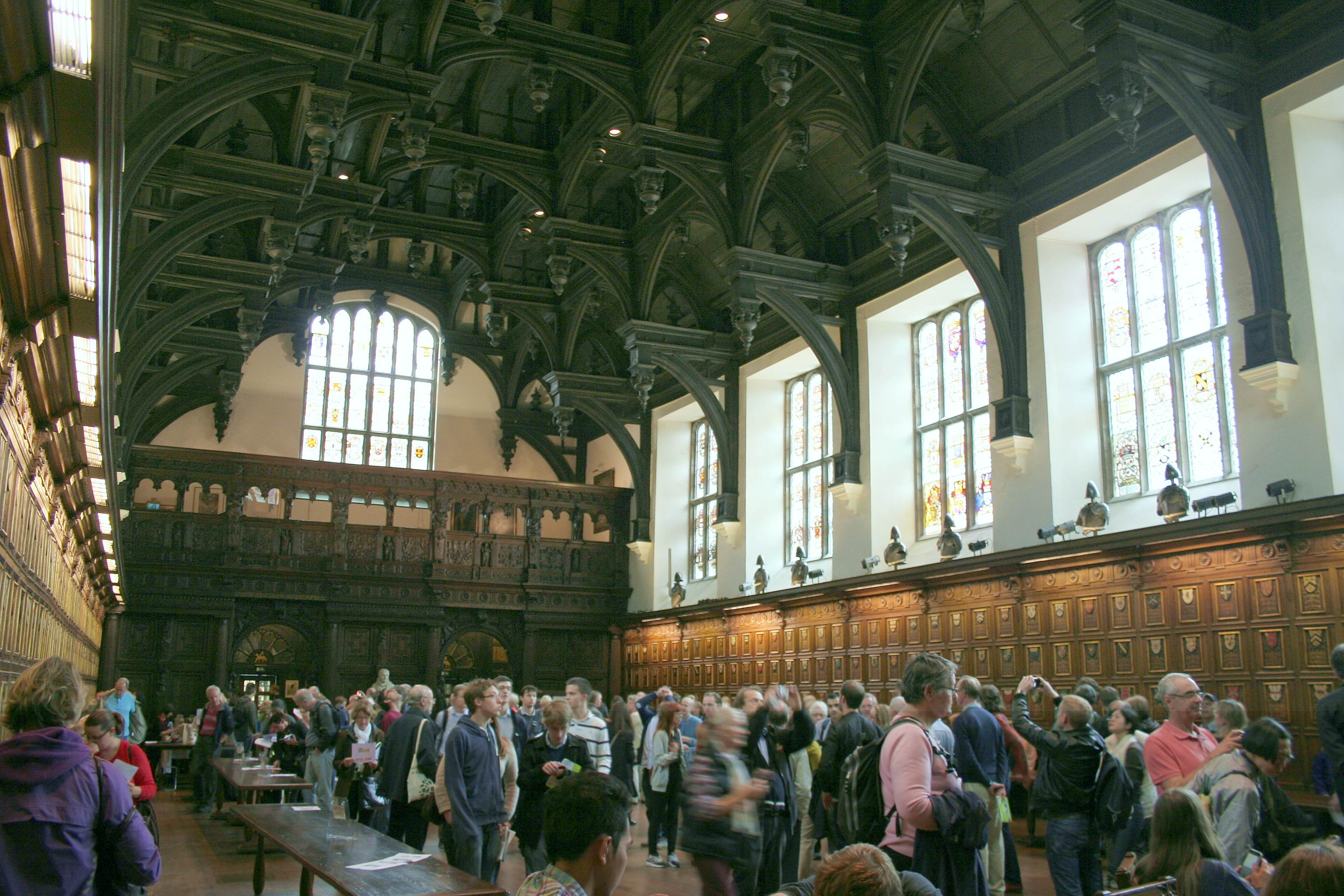 Interior of the Middle Temple hall with its double-hammerbeam roof in September 2013.